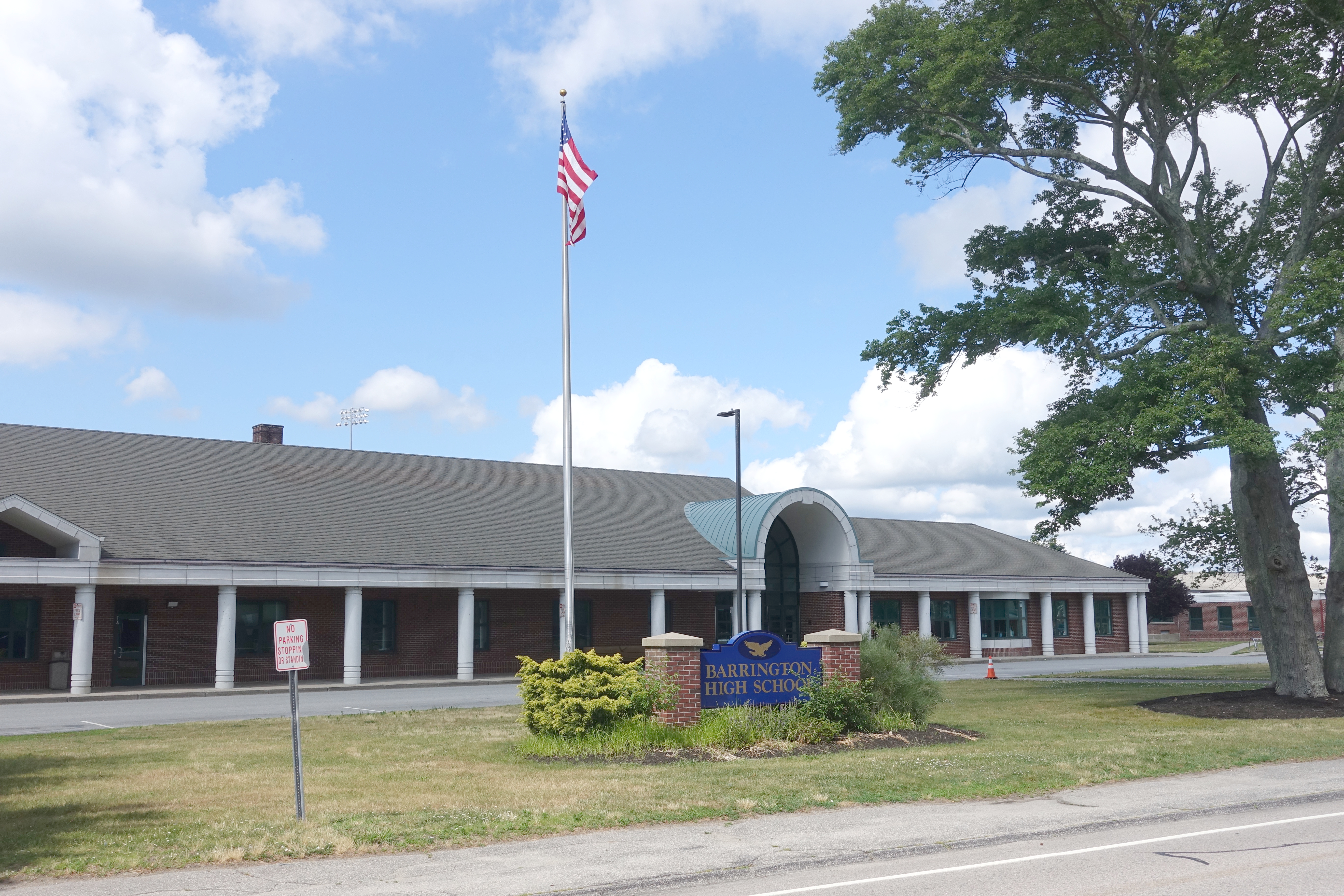 Photo of the front of Barrington High School, a public high school in Barrington, Rhode Island.